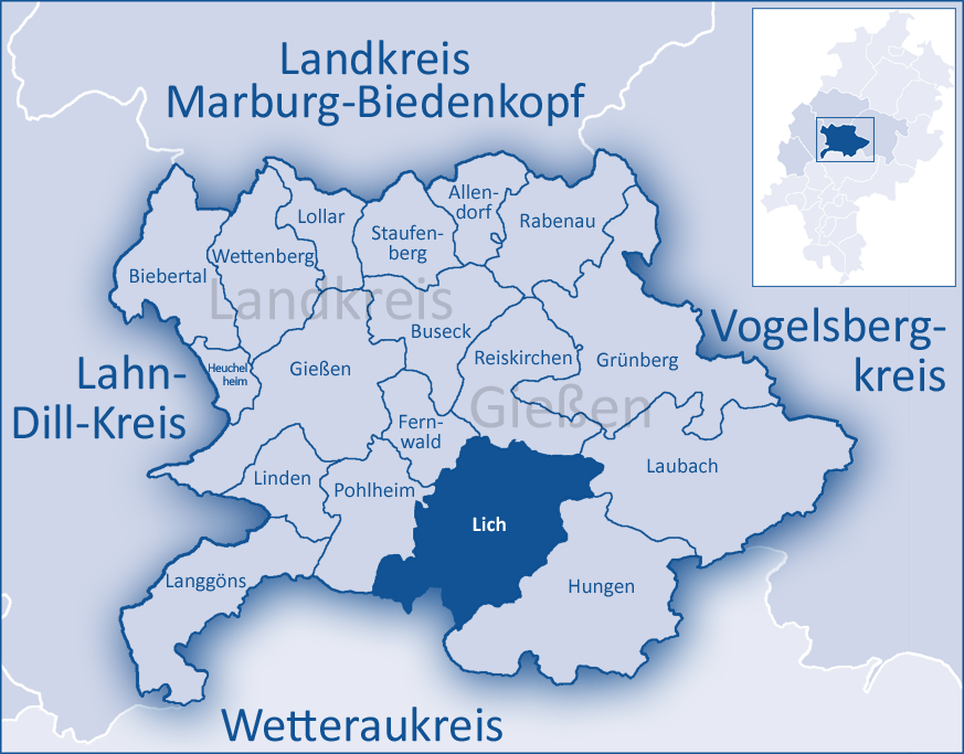 The map shows a district in the area of Gießen (district)